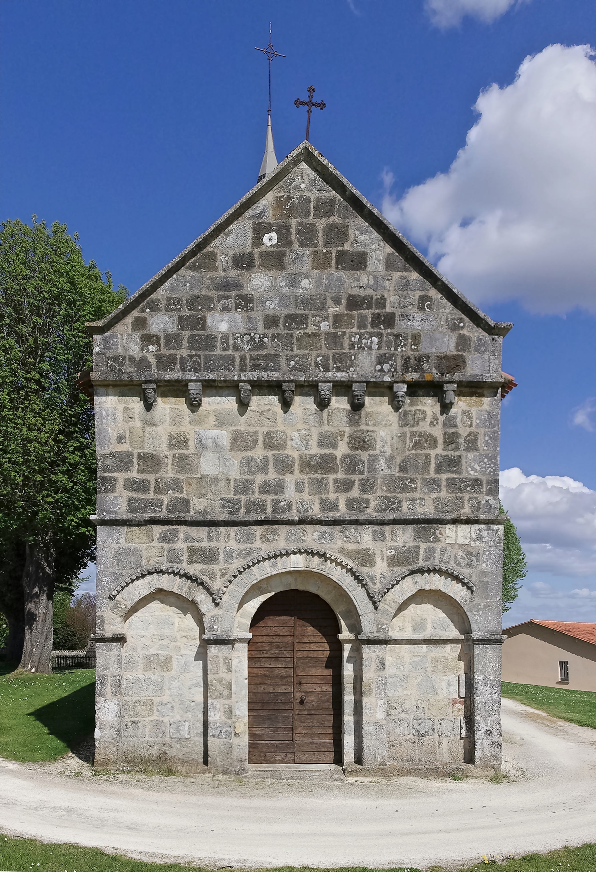 Facade (12th century), church of Chavenat, Charente, France. .